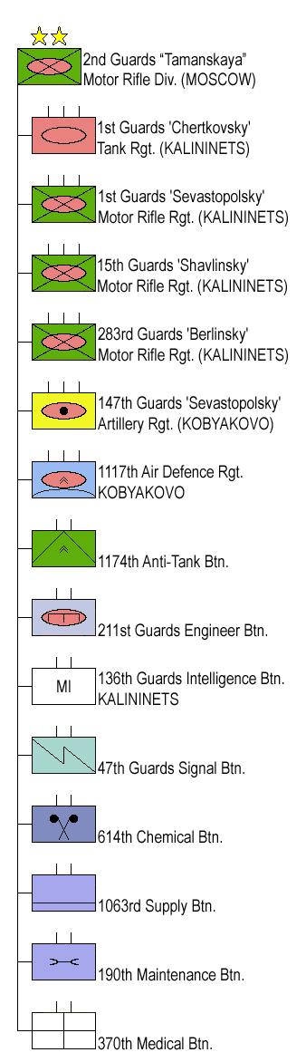 2nd Guards "Tamanskaya" Motor Rifle Division, Russian Ground Forces.